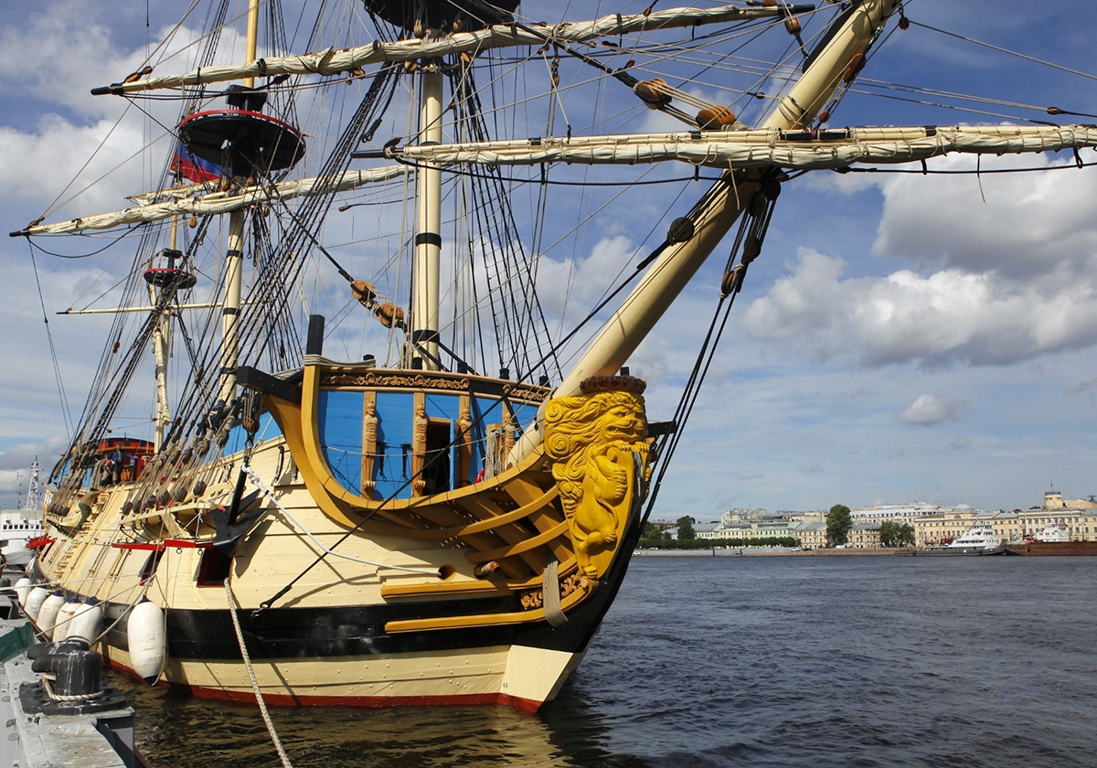 Poltava was a 54-gun ship of the line of the Russian Navy.